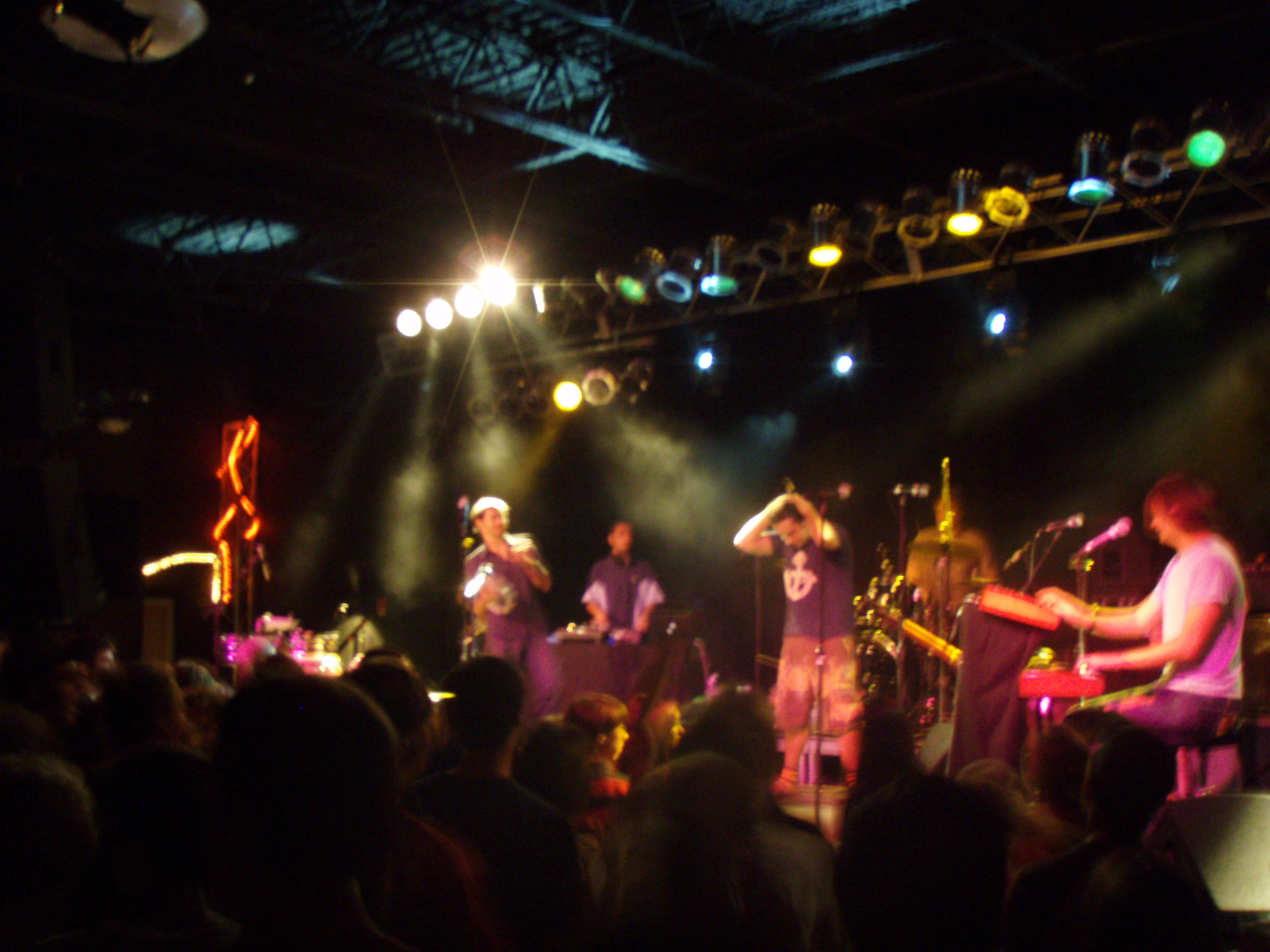 The Cat Empire